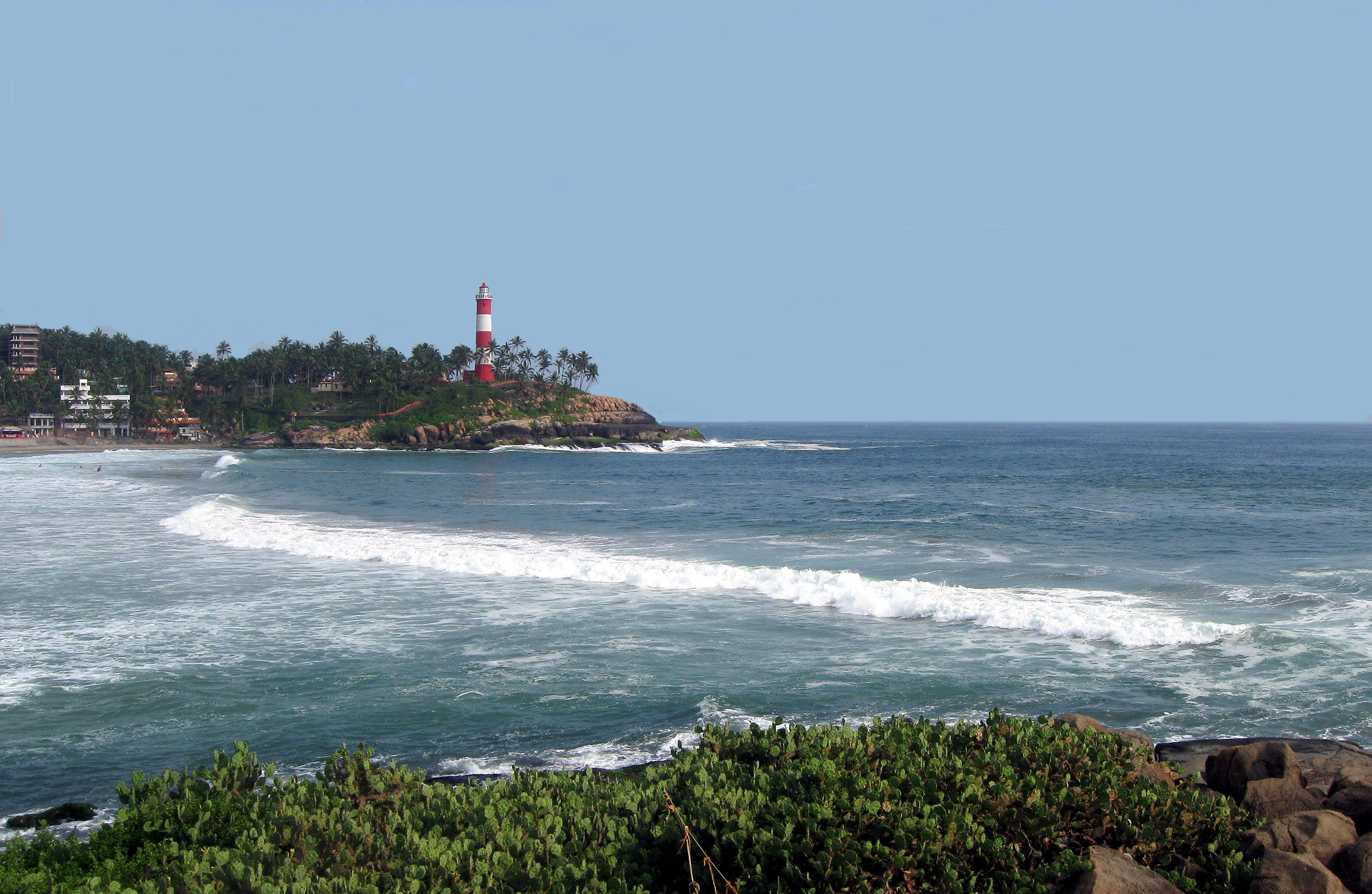 View of light house in Kovalam Beach